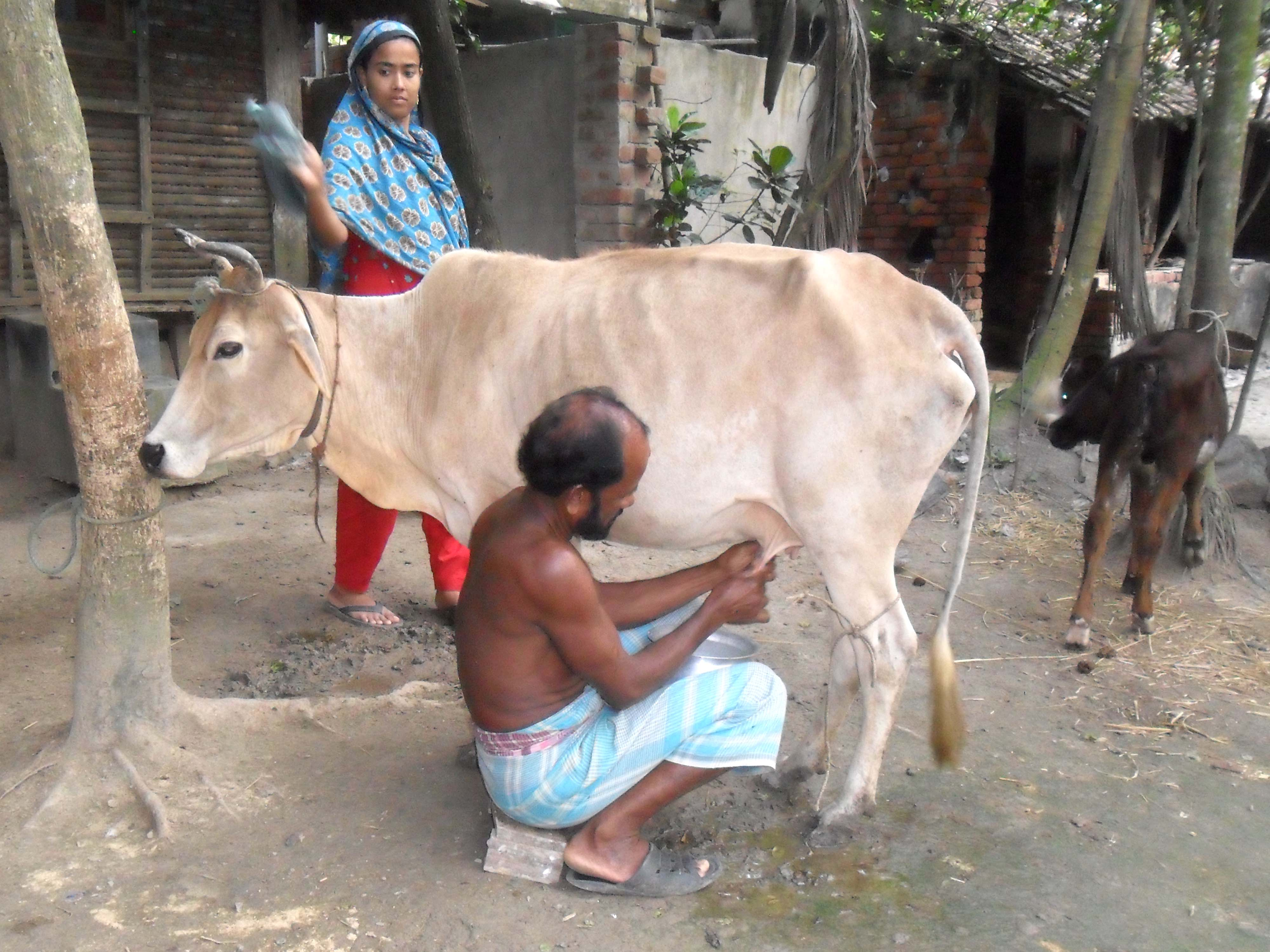 Milking by hand at Manirampur Upazila